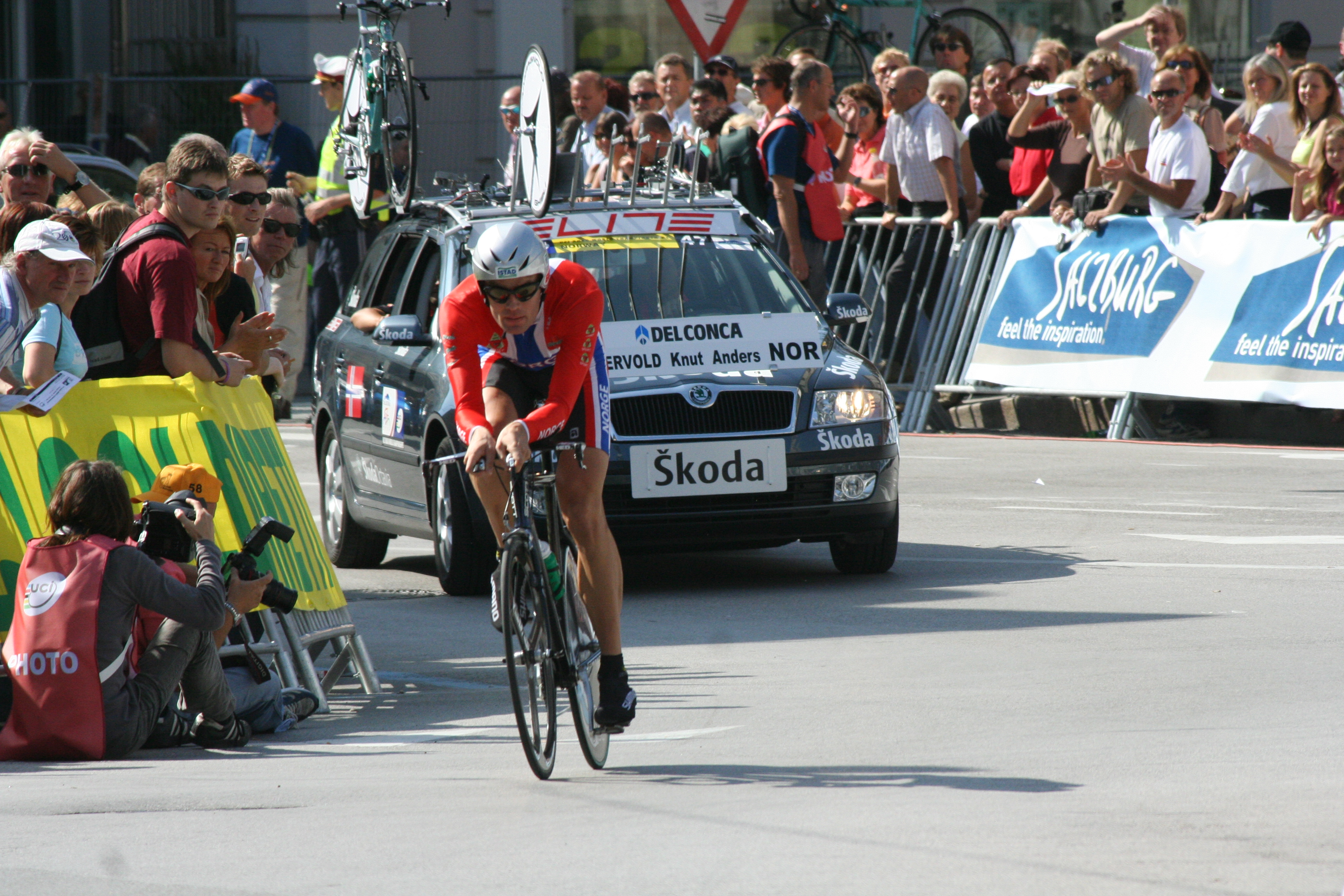 Knut Anders Fostervold (Norway) at the UCI Road World Championships 2006 in Salzburg, September 2006